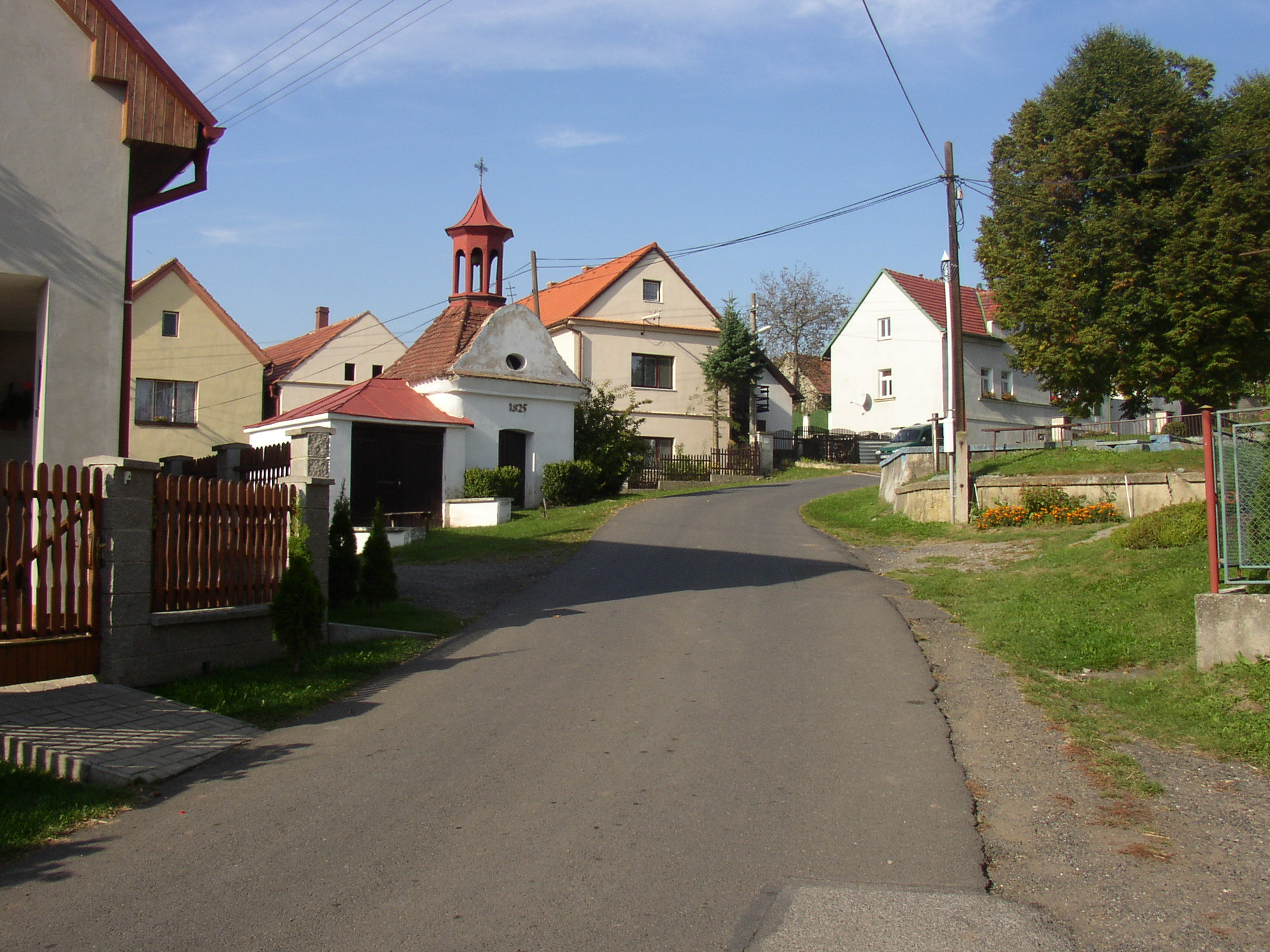 Chrášťany, Litoměřice District, Czech Republic. Old upper common with an 1825 chapel.